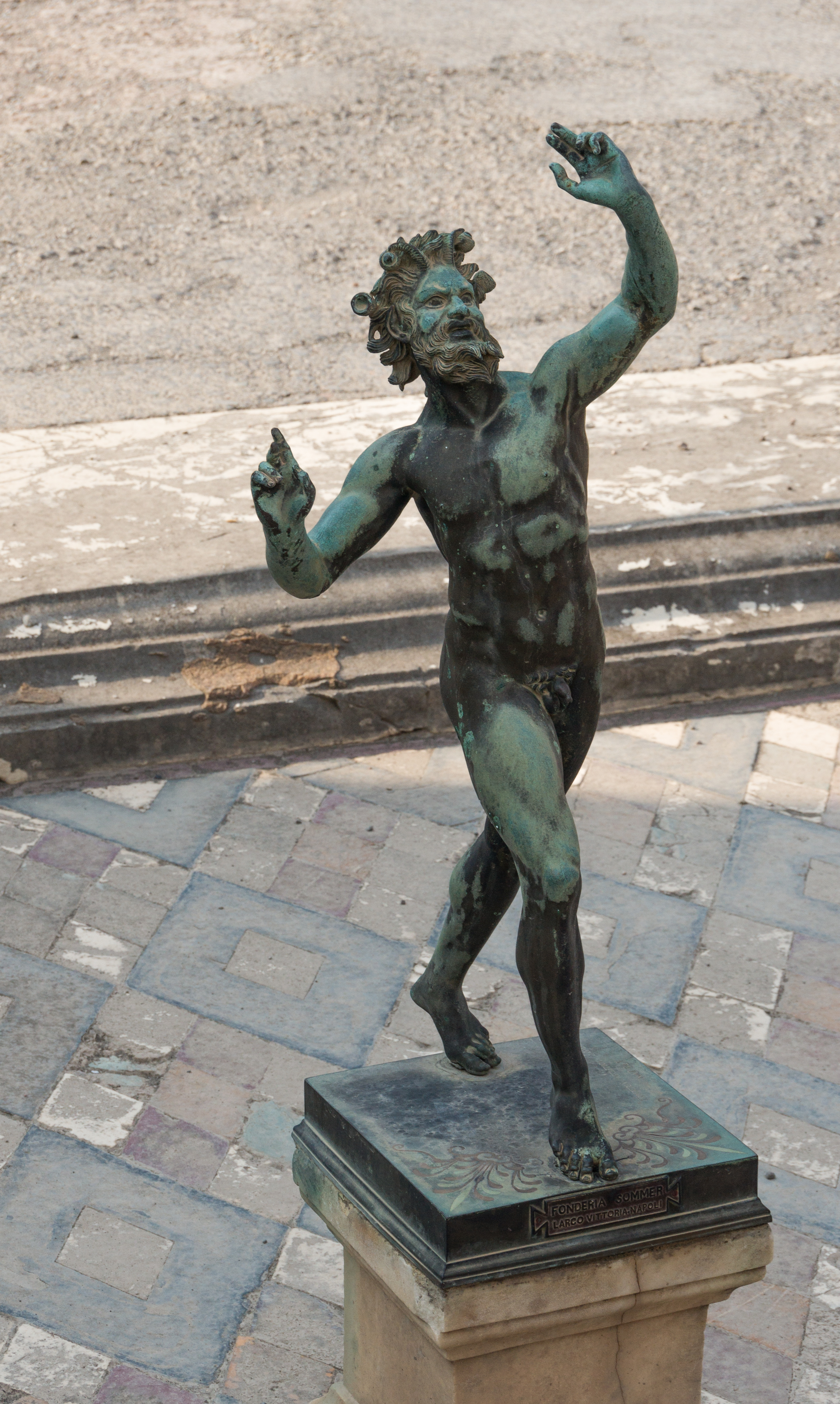 The "dancing Faun" (copy), Pompeii, Italy